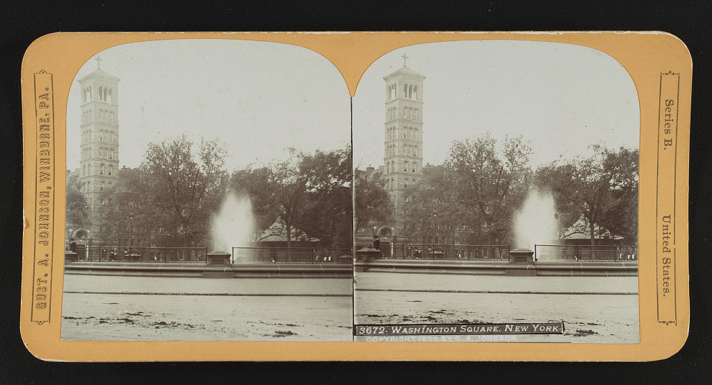 Stereo photograph of Washington Square, New York, by Gust A. Johnson, 1903